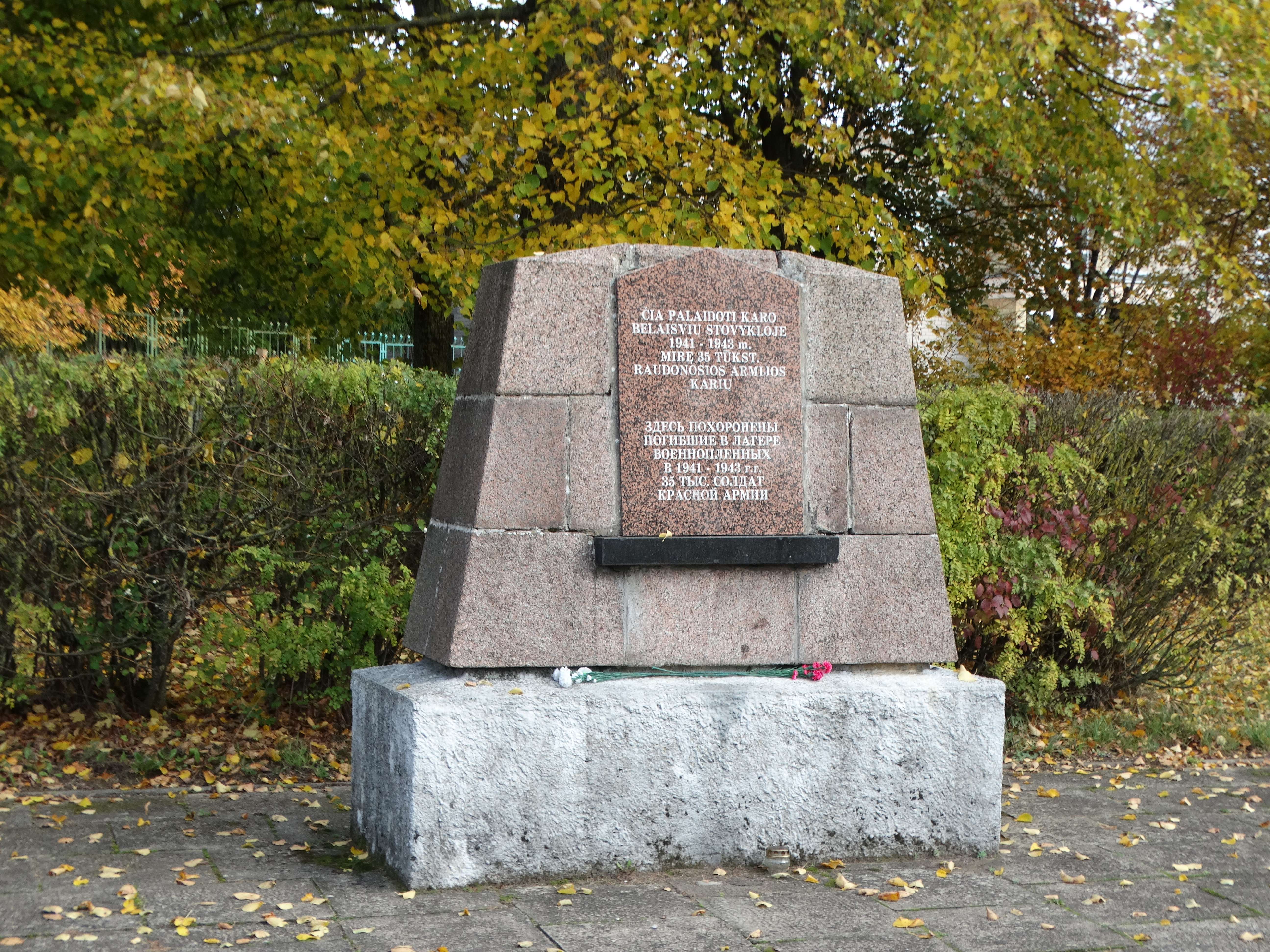 Fort VI Military Prisoners Cemetery, Lithuania